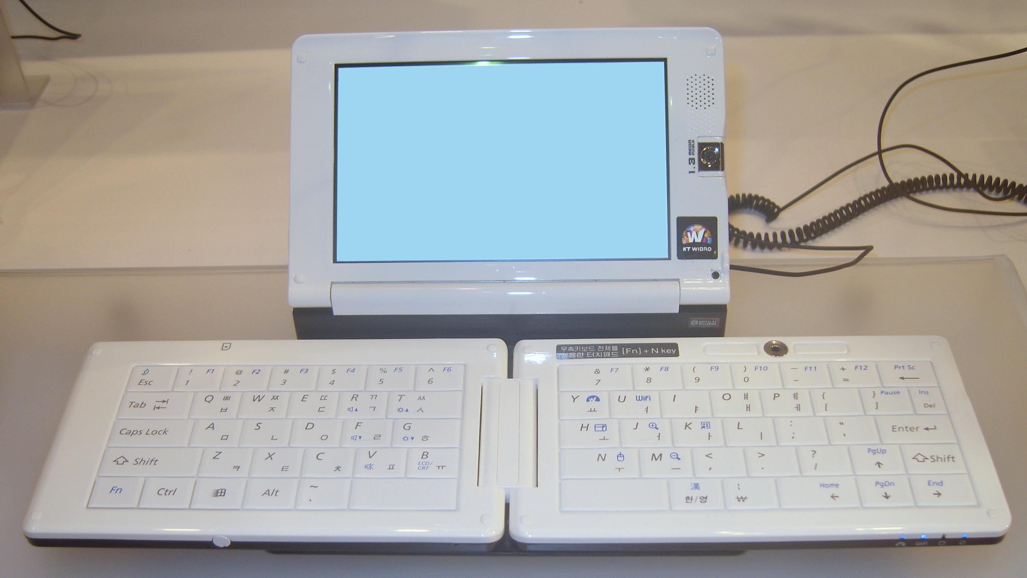 2008 WiMAX Expo Taipei: Samsung SPH-P9200.